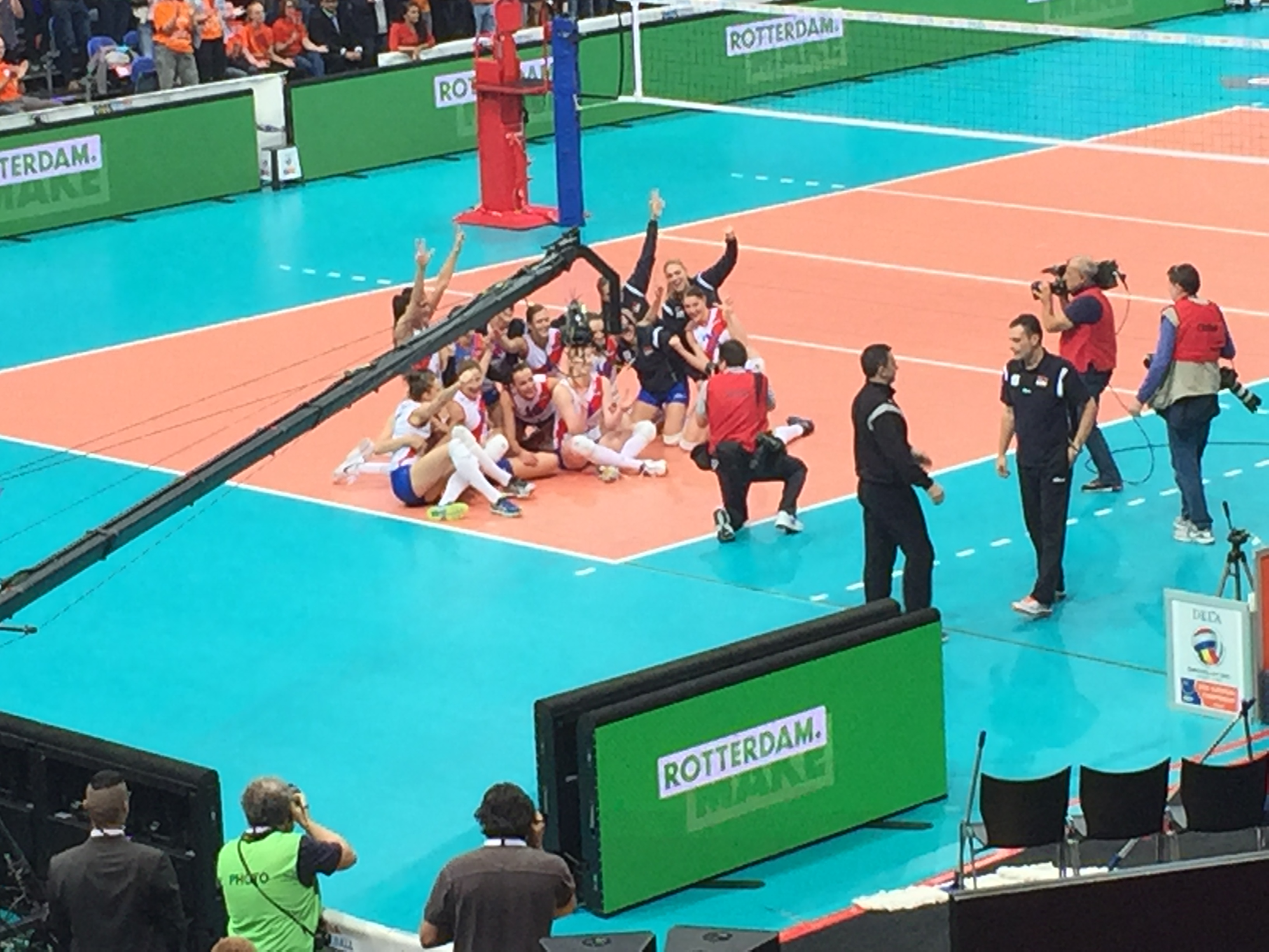 European Women's Championship Volleyball 2016 2015 Women's European Volleyball Championship. Final between the Netherlands and Russia